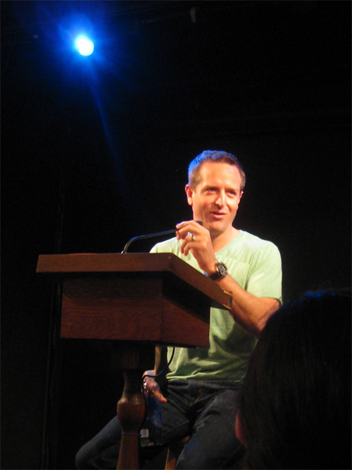 Hugh Howey in the Richard Hugo House in Seattle, Washington on March 20th, 2013